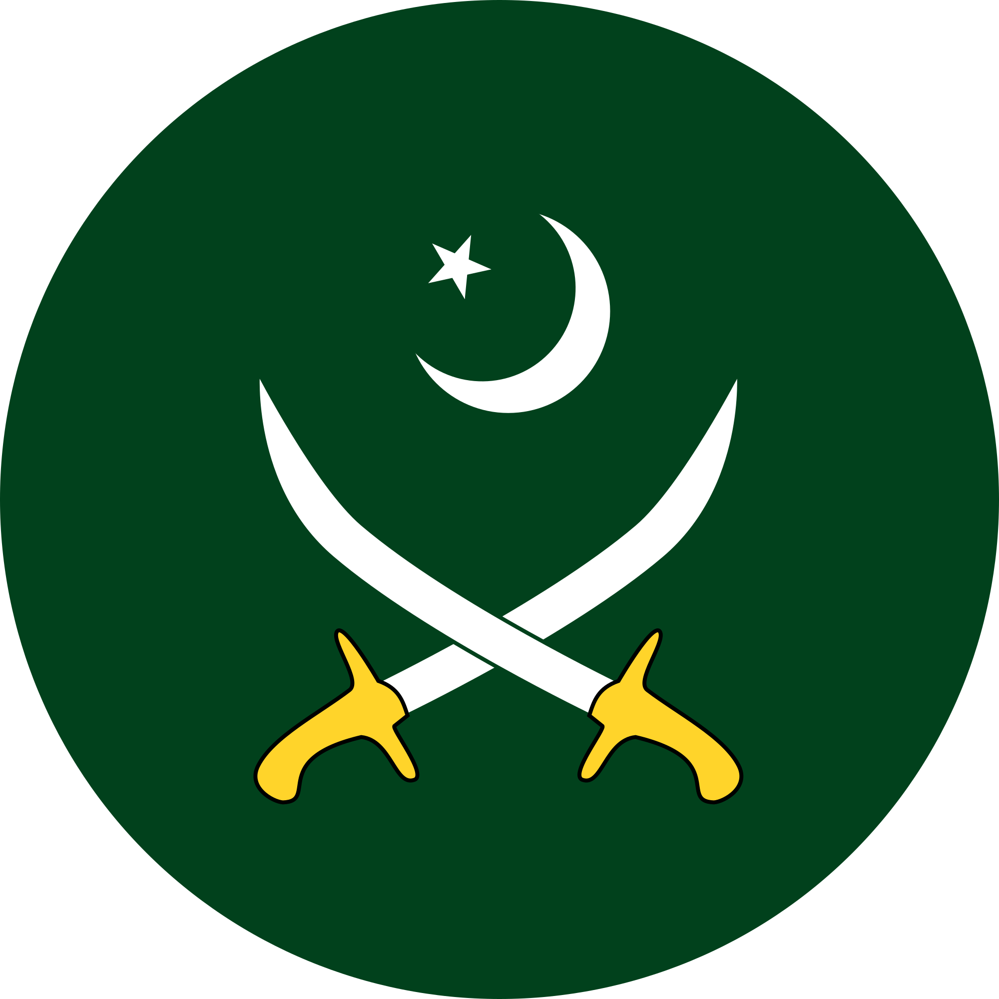 Pakistan Army Logo